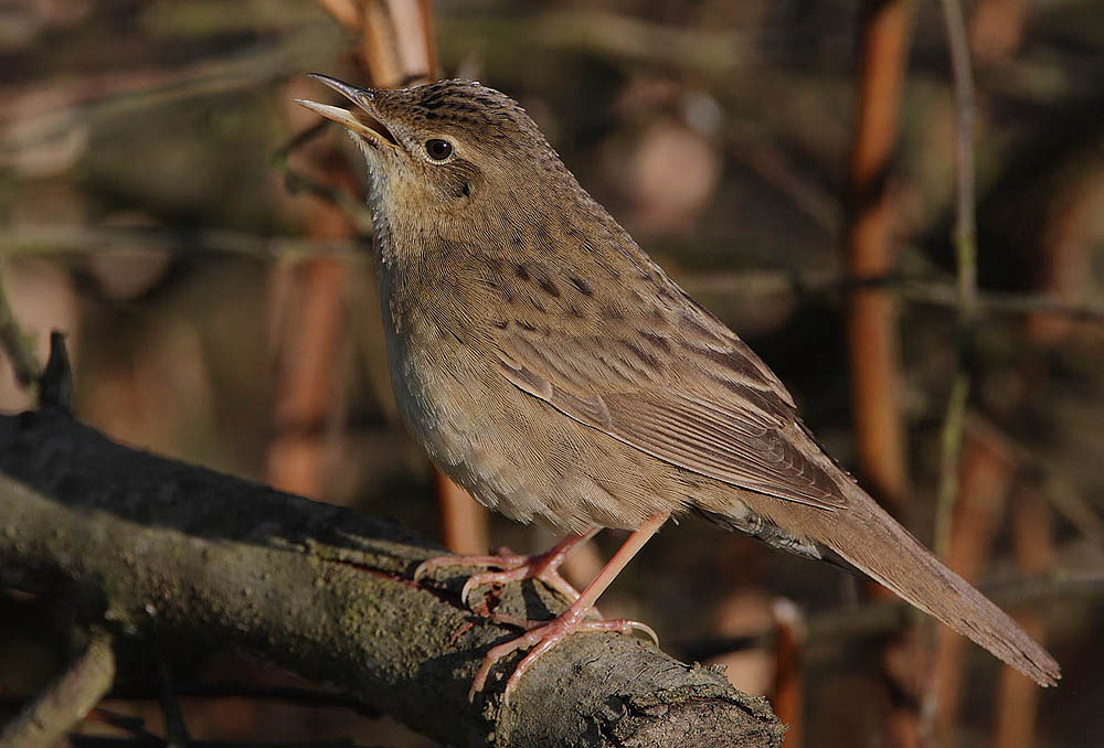 Taken at Cullaloe, Fife, Scotland. A male singing in the low evening sun.